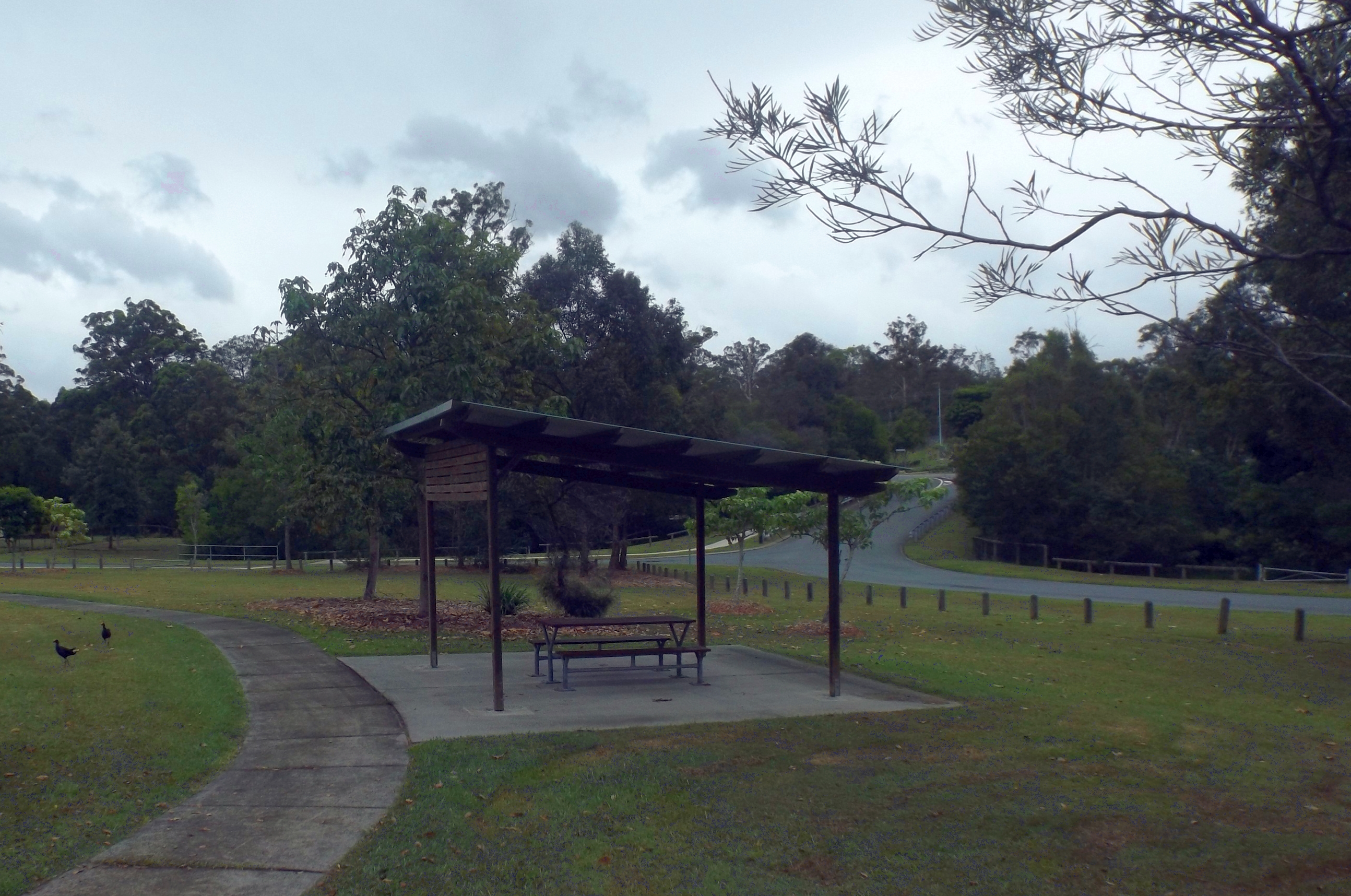 Park and sheltered table along Tuxedo Junction Drive, Maudsland, Gold Coast City, Queensland, Australia.